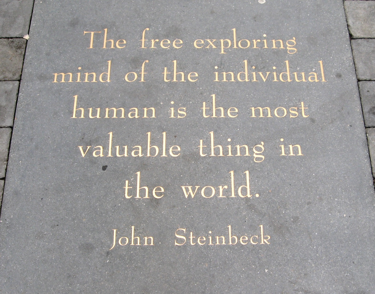 John Steinbeck's poem plague near the City Lights Bookstore in San Francisco Chinatown's Jack Kerouac Alley.